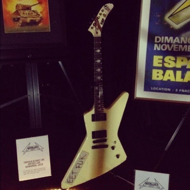 This is the James Hetfield's Eet Fuk Guitar. At Metallica's 30th Aniversay Concert in San Francisco [Filmore, December 6th, 2011]